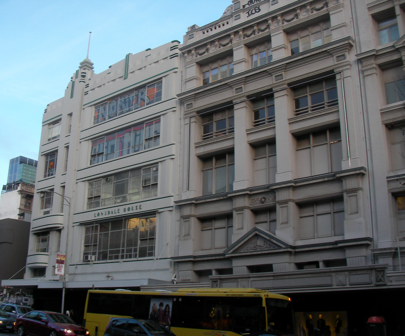 Myer Lonsdale buildings including Londsale House.